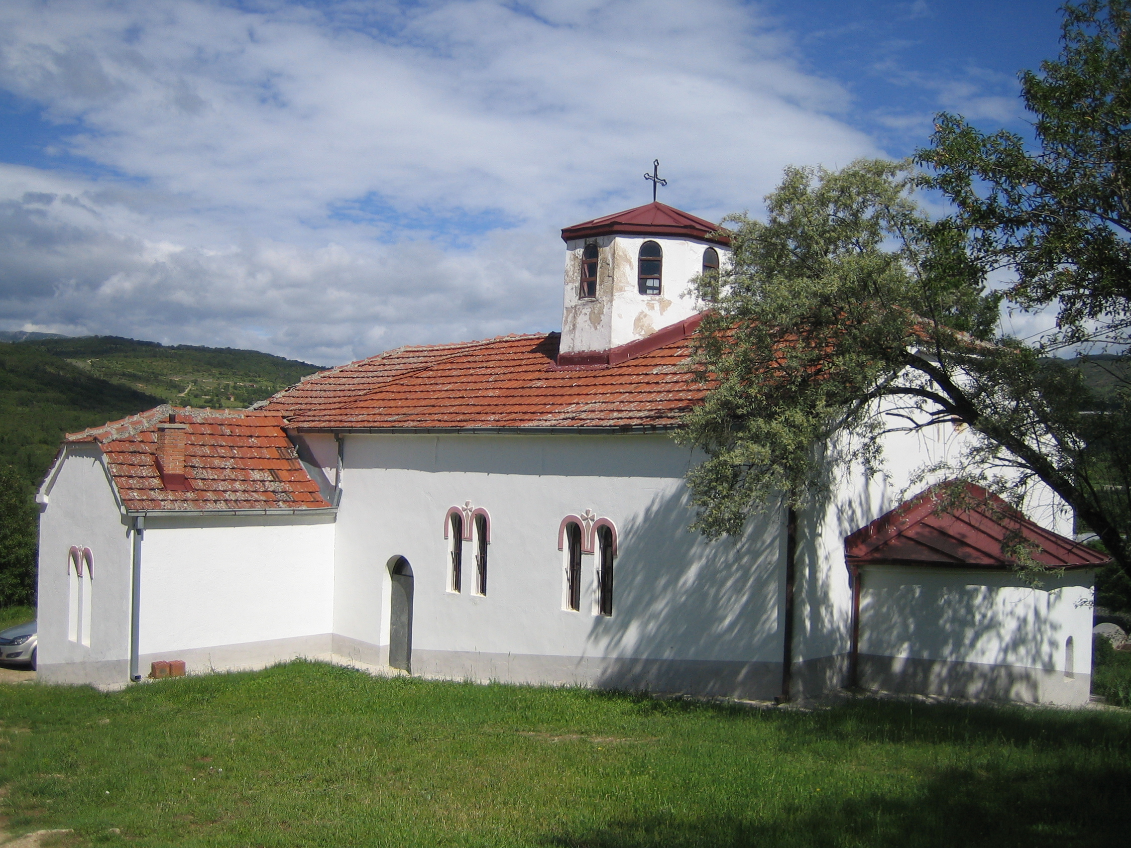 St. Tryphon Church (Govrlevo)